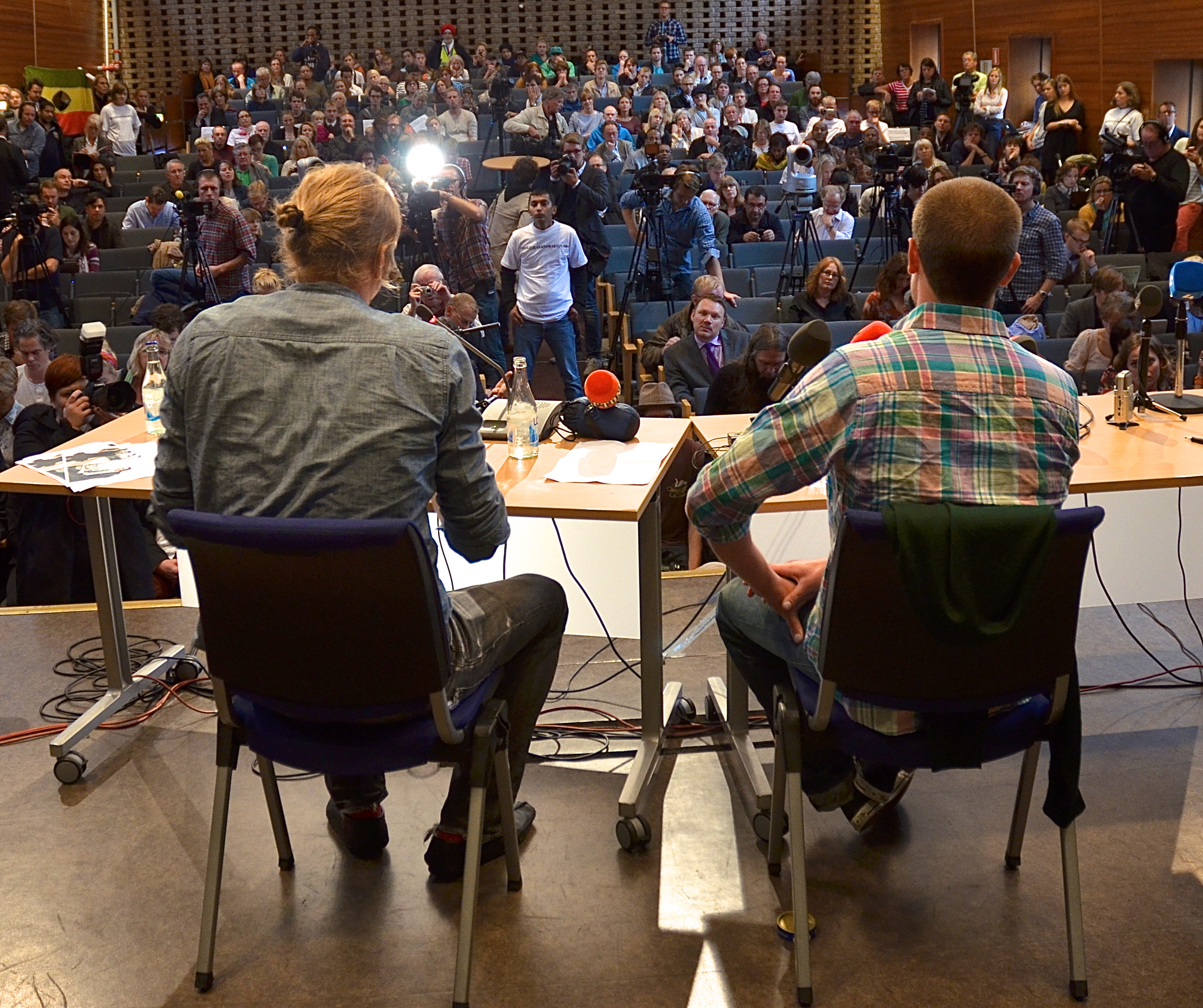 Martin Schibbye and Johan Persson at press conference after their release in September 2012.